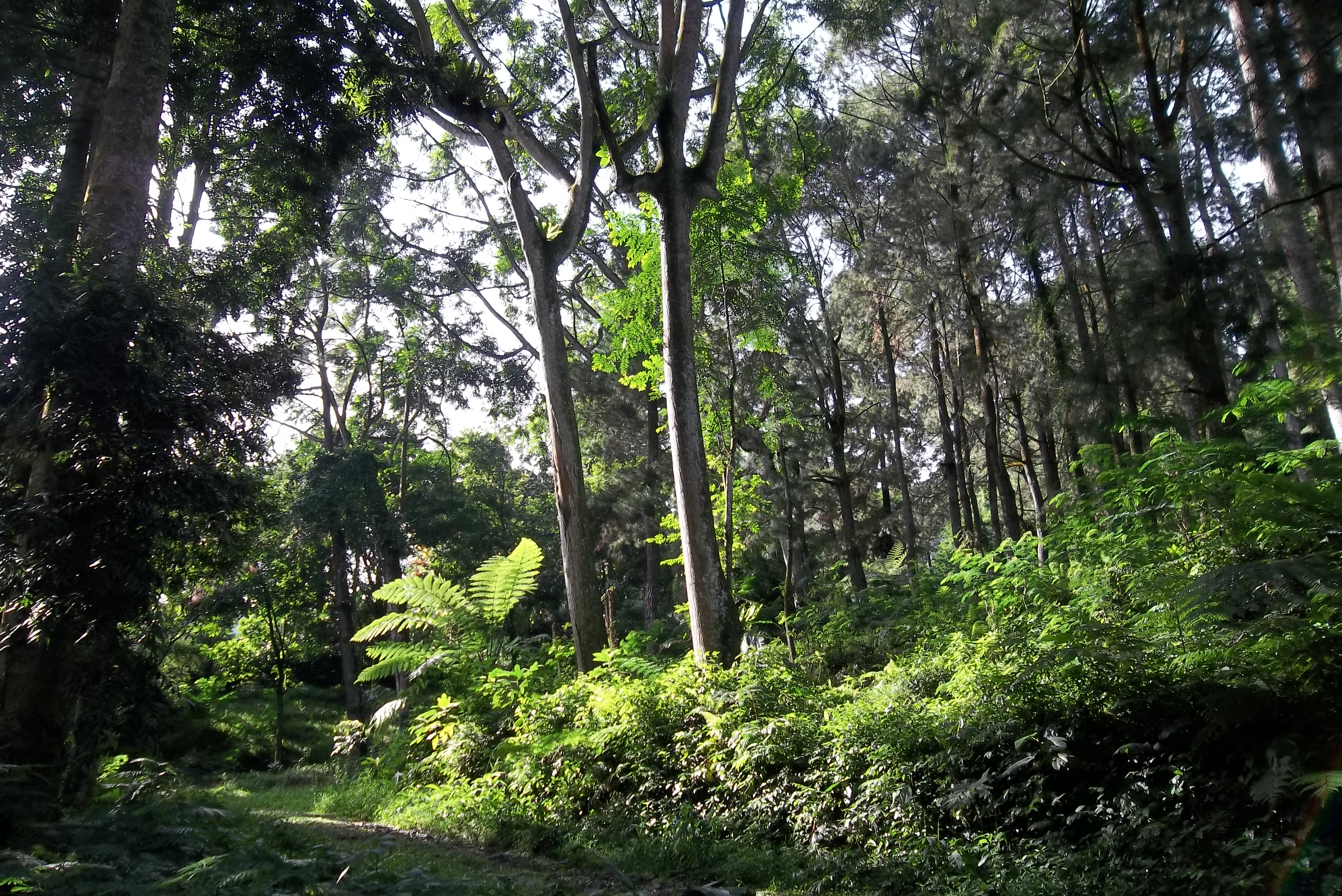 Sukamantri, Ciapus, Bogor, a forest on the foot of Mount Salak.